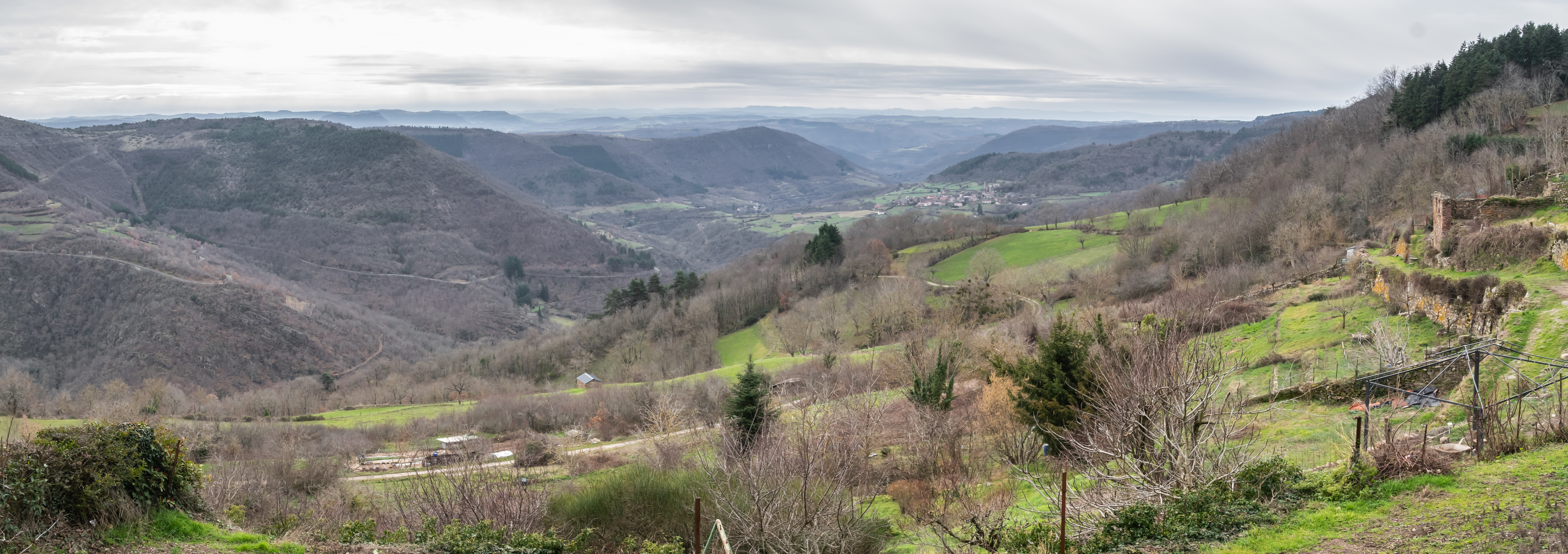 Valley of the Muze river (view from Castelnau-Pégayrols), Aveyron, France